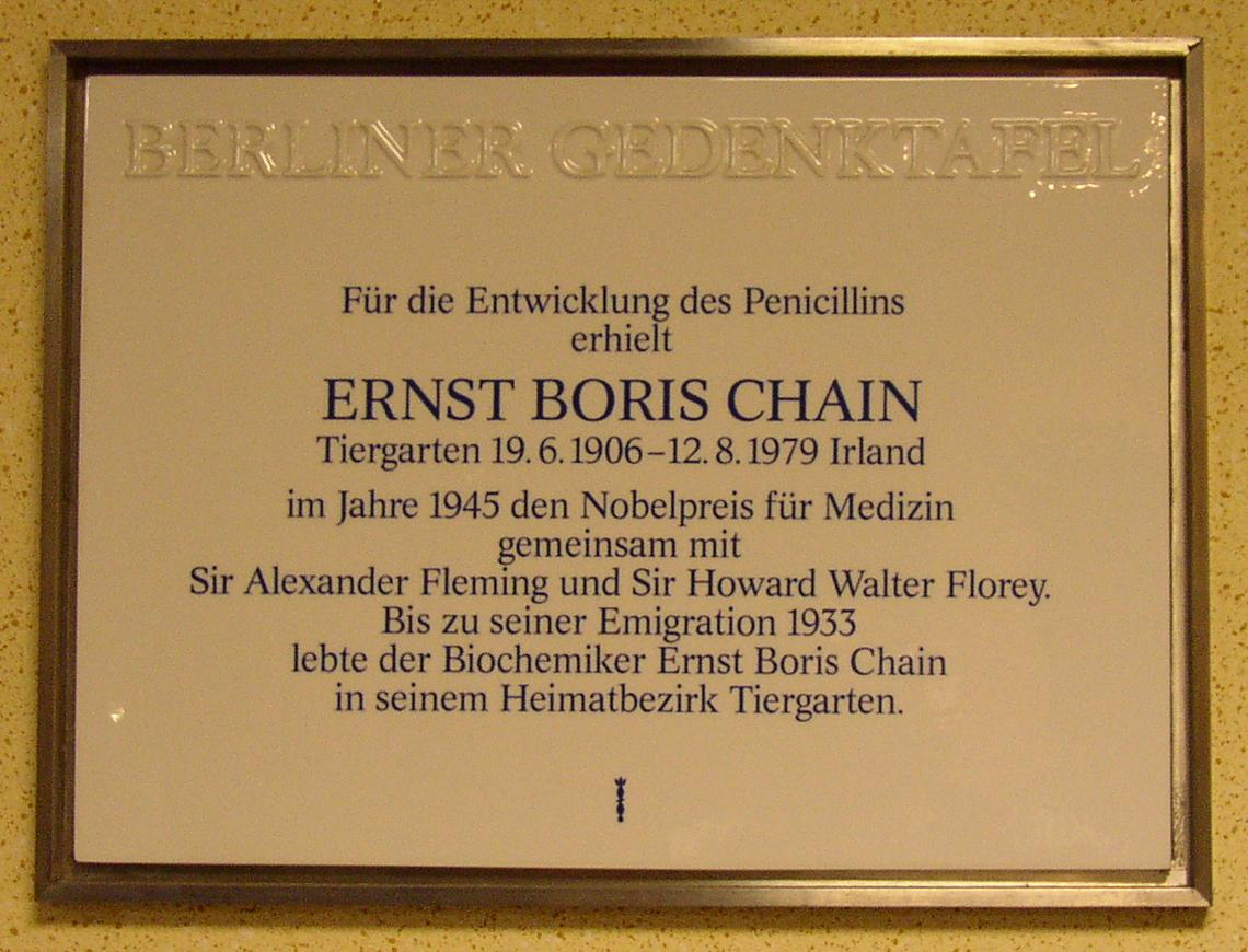 Berlin memorial plaque for Ernst Boris Chain in Berlin-Moabit, Germany